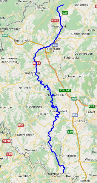 Course of the river Prüm from data on OpenStreetMap